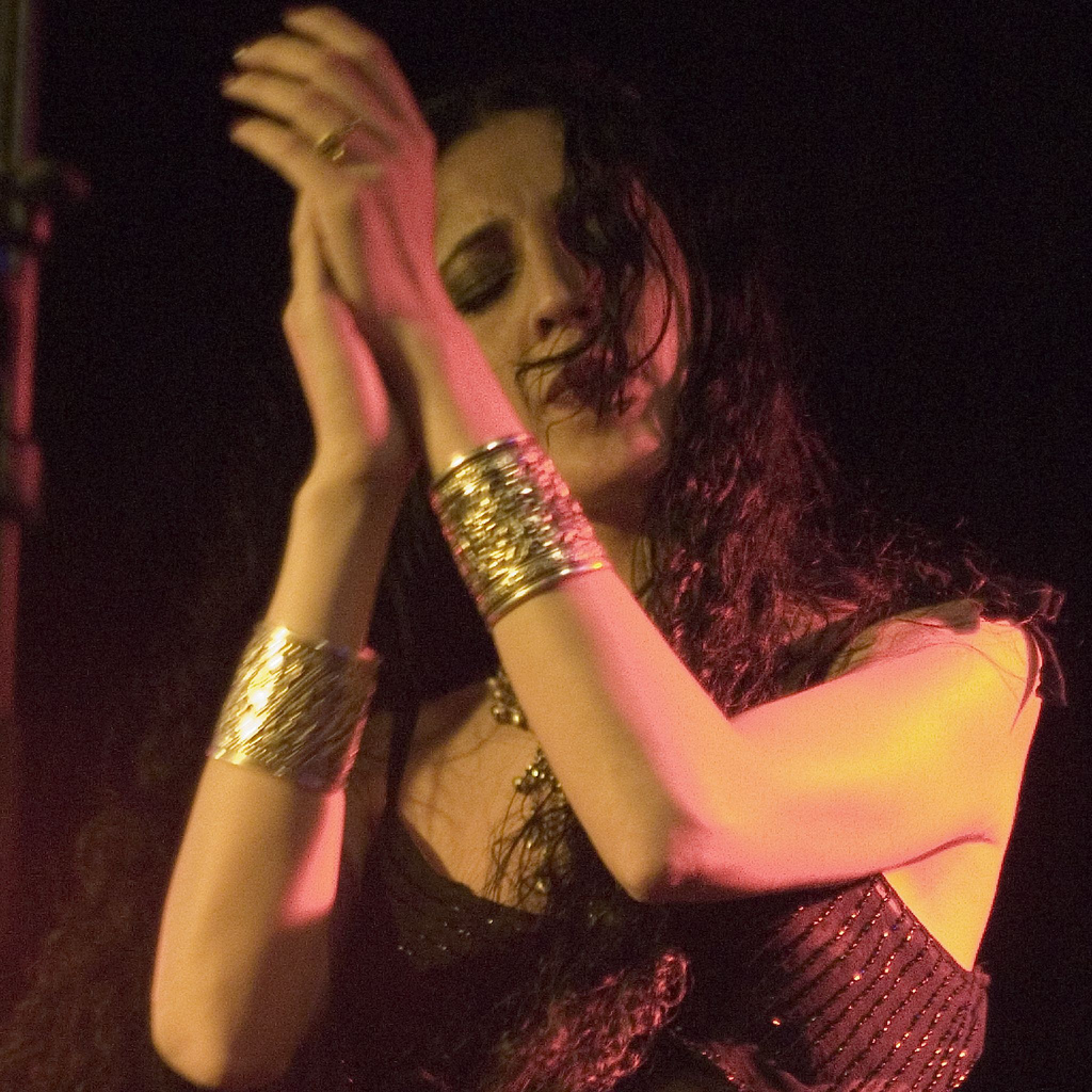 Azam Ali at Cafe du Nord, San Francisco. March 11, 2007.